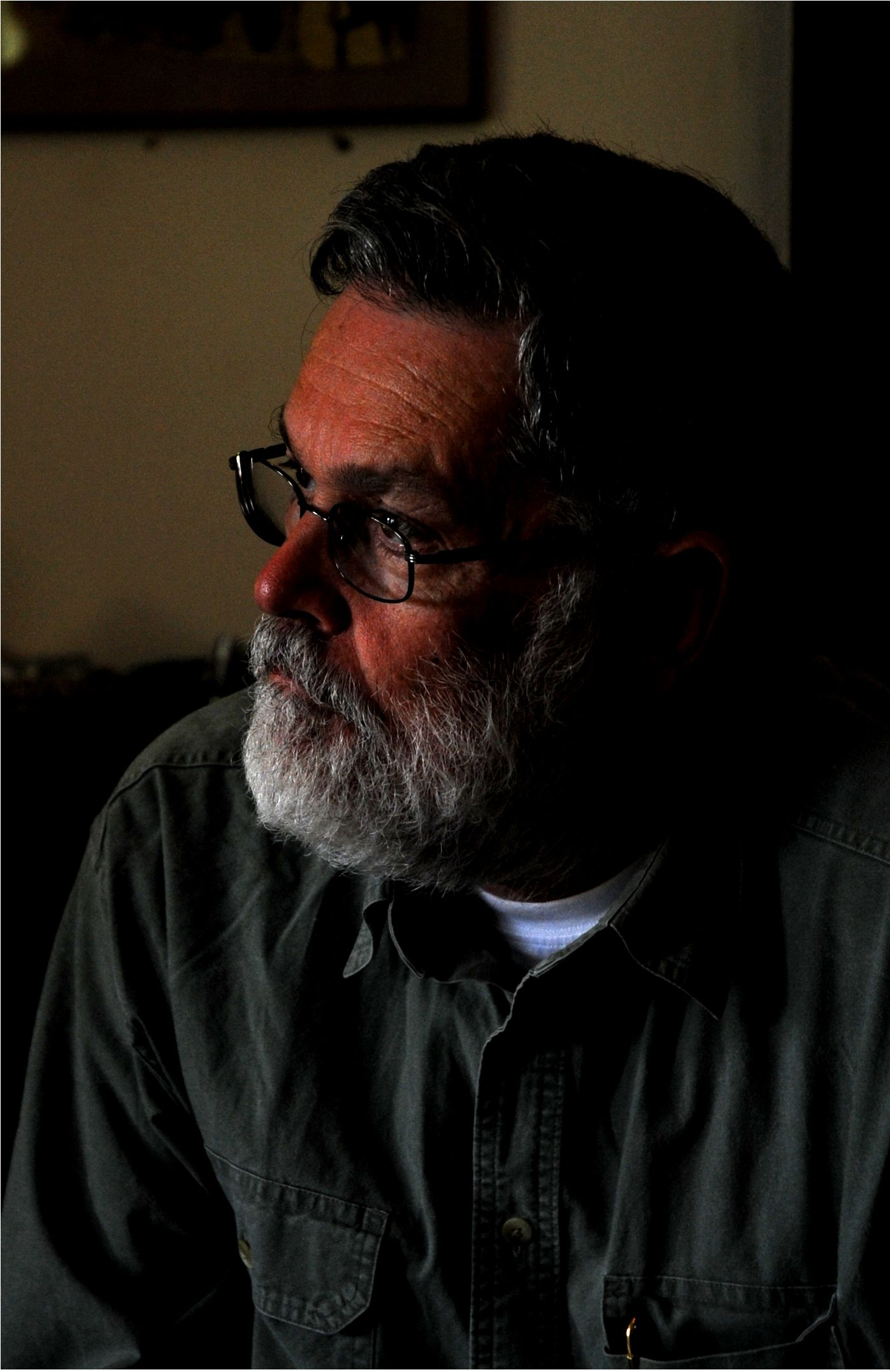 Author Photo